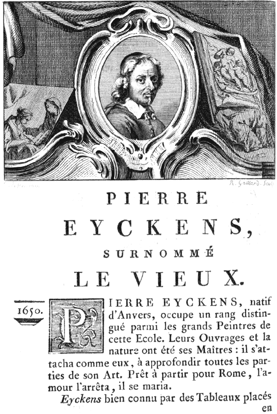 Book 3 of 4-volume painter biographies by Jean-Baptiste Descamps